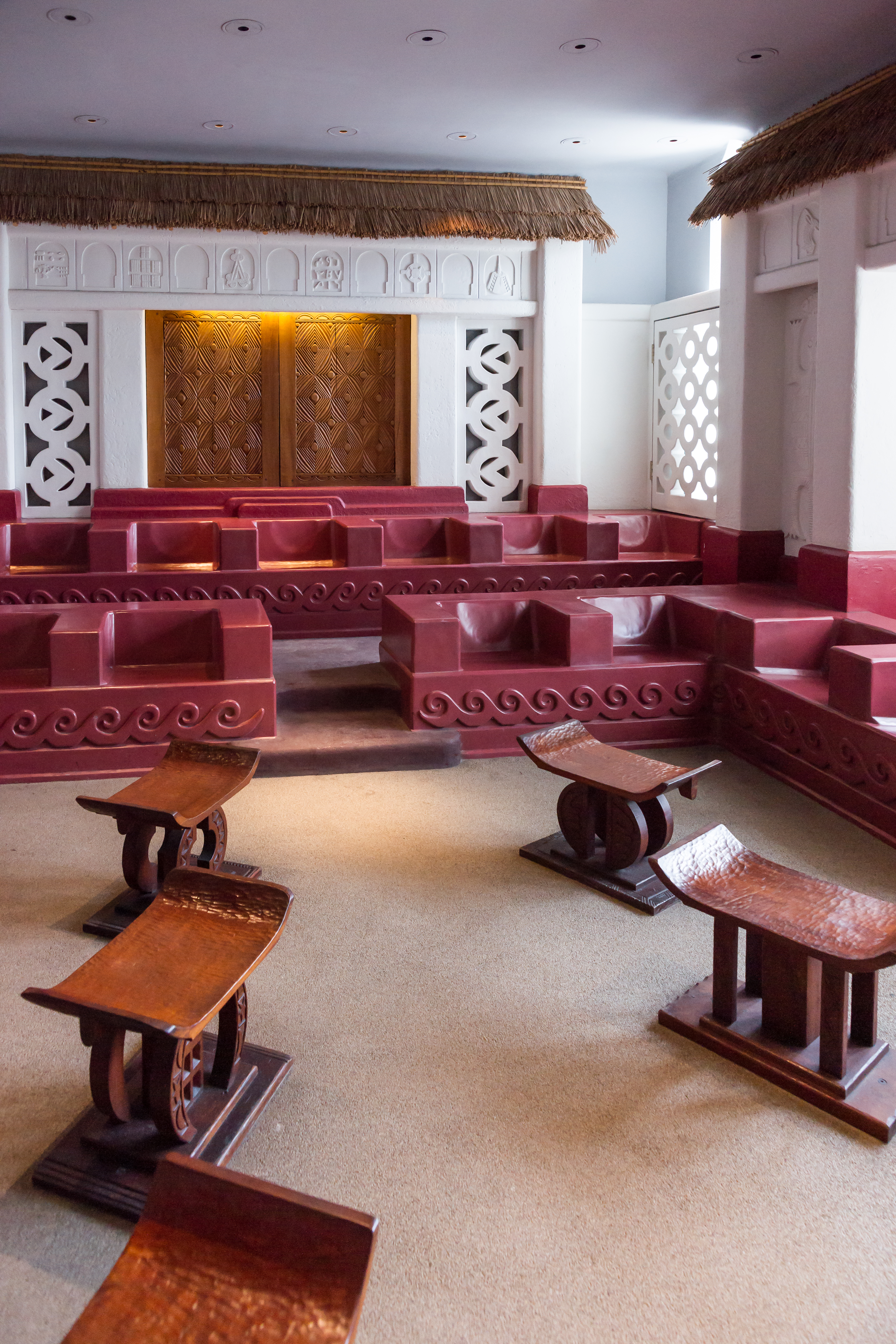 African Heritage Nationality Room in the Cathedral of Learning at the University of Pittsburgh